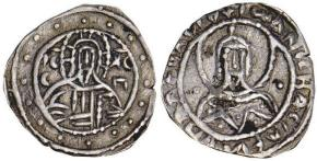 John VII Palaeologus (1399-1403). AR half Stavraton (quarter hyperpyron). Constantinople. IC-XC, Bust of Christ Pantocrator, with cross nimbus, wearing himation over chiton, holding book of gospels and raising right hand, C-P across fields / + IWANIC BACILEVC O PALAOLOGO, Bust of John with forked beard, nimbate, wearing domed cross and pendilia; dot in right field. DOC 1328; Sear 2562.